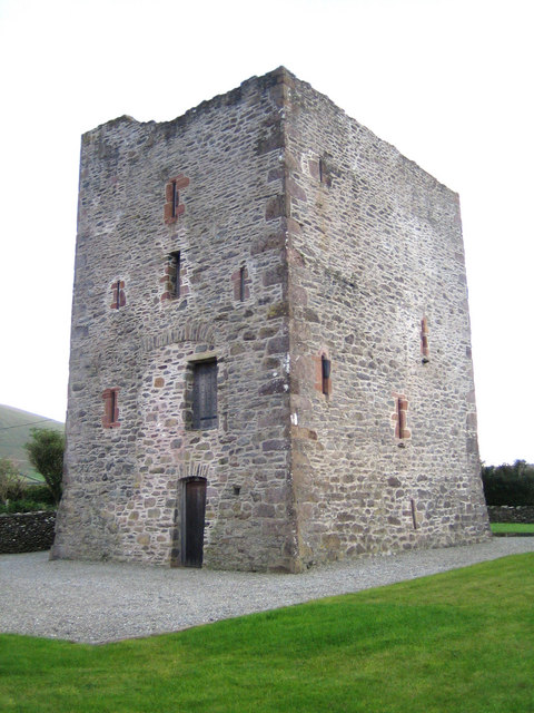 Gallarus Castle About half a kilometre away north-west from the Gallarus Oratory is the Castle, which is a four storey rectangular fortified tower house probably dating from the fifteenth century and probably built by the Fitzgerald family.